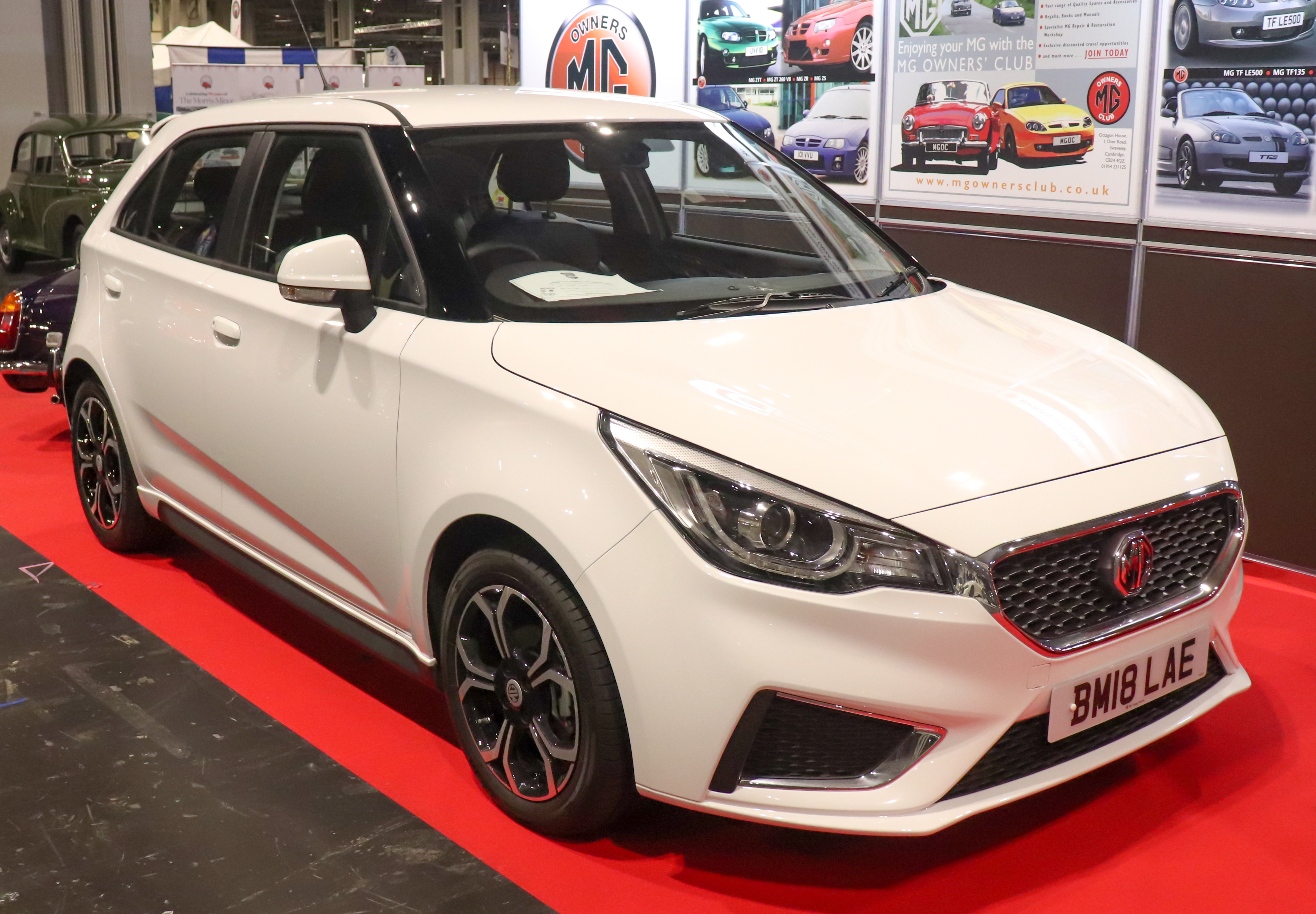 2018 MG 3 facelift 1.5 Front Taken at the NEC Classic Motor Show 2018